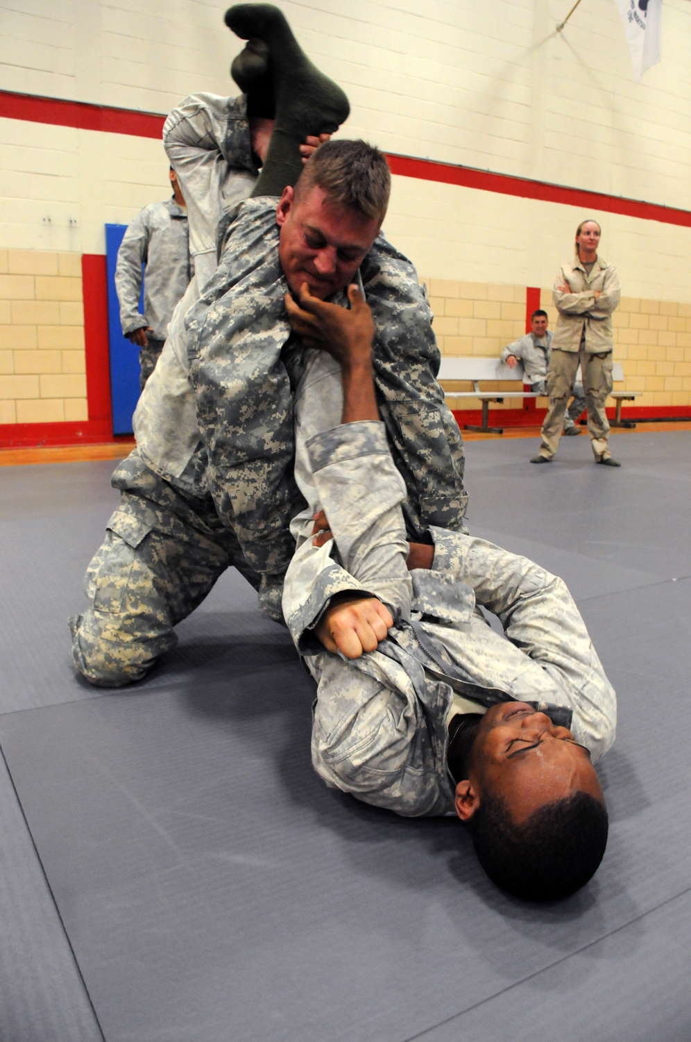 FORT DIX, New Jersey (JULY 11, 2009) Master-at-Arms 1st Class Michael Daniel, from Everett, Wash., and Personnelman Seamen Jamel Settles, from Atlanta, Ga. practice combative techniques at Fort Dix during training to deploy as individual agumentees. The service members are undergoing training before deploying to support Operations Enduring Freedom and Iraqi Freedom. (U.S. Navy photo by Mass Communication Specialist 2nd class Lenny M. Francioni/Released)